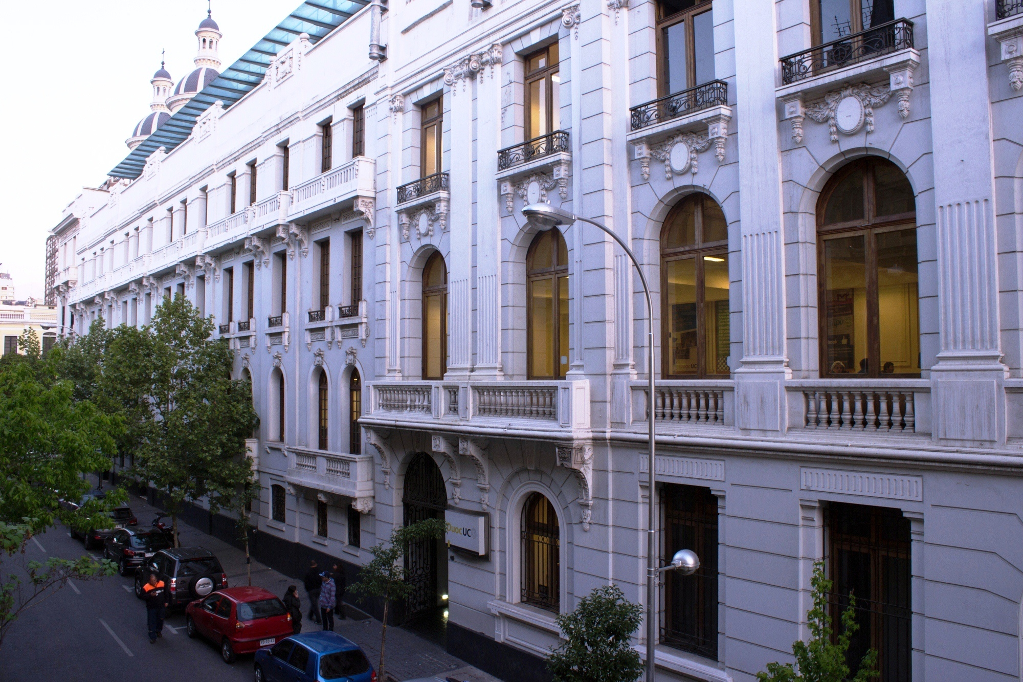 Palacio Eguiguren